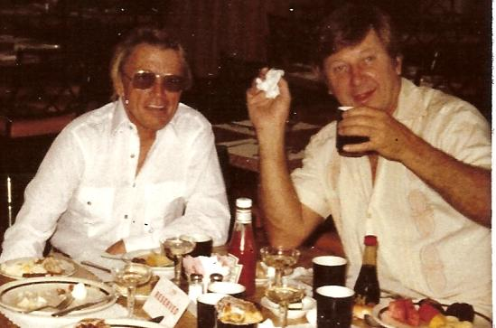 Rayford Barnes with brother, also an entertainer, Lou Dupont, in Las Vegas, NV, c. 1983